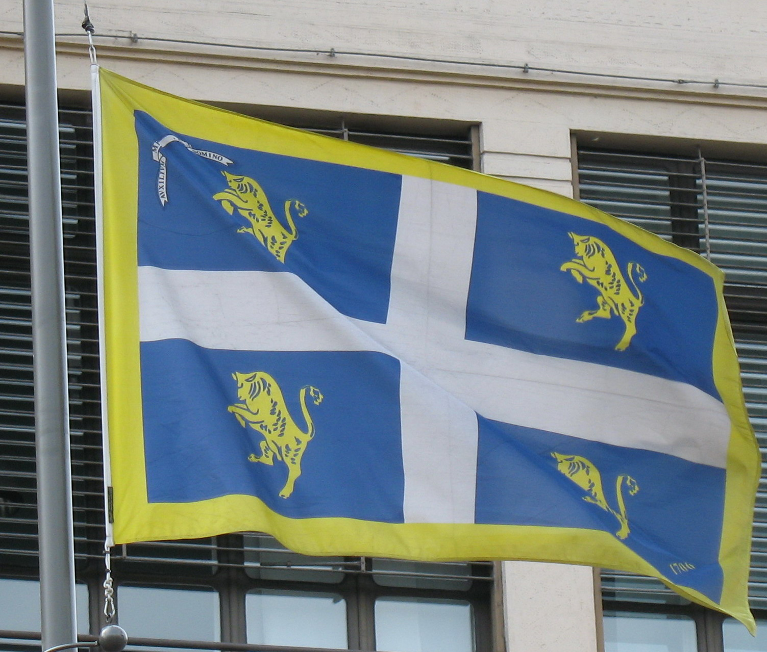 Official flag of Turin, for the battle of Turin